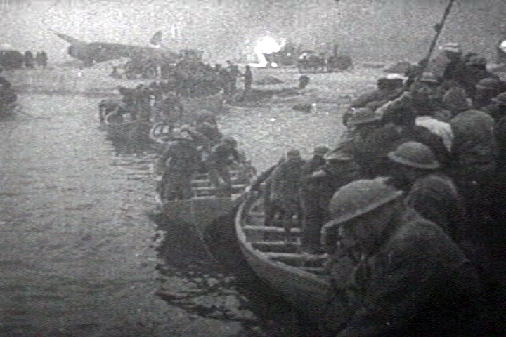 British troops escaping from Dunkirk in lifeboats (France, 1940). Screenhot taken from the 1943 United States Army propaganda film Divide and Conquer (Why We Fight #3) directed by Frank Capra and partially based on, news archives, animations, restaged scenes and captured propaganda material from both sides.